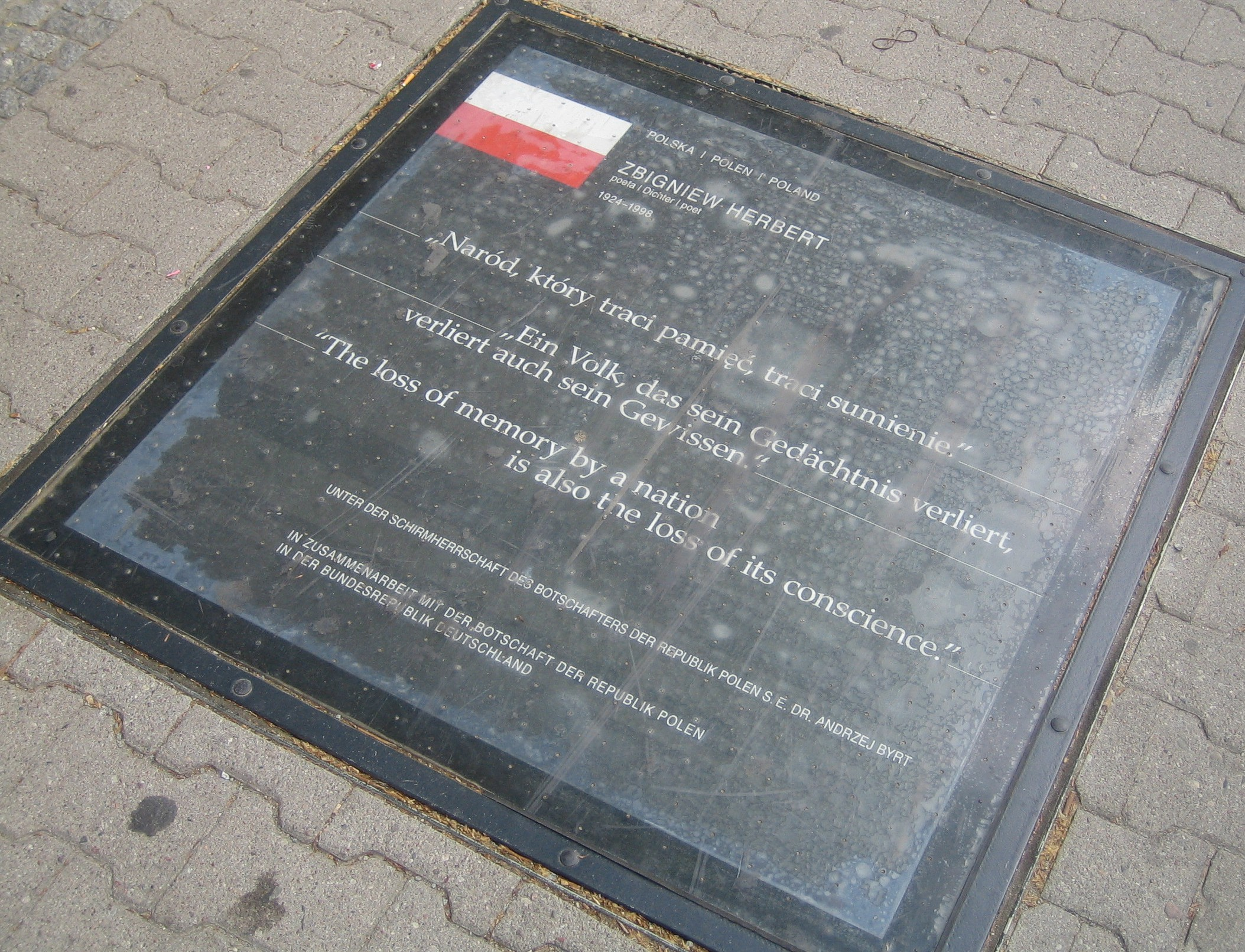 Berlin, pedestrian section of Friedrichstraße near Mehringplatz. Part of the ground-level-installation "Path of Visionaries". Plaque with citation of Zbigniew Herbert.